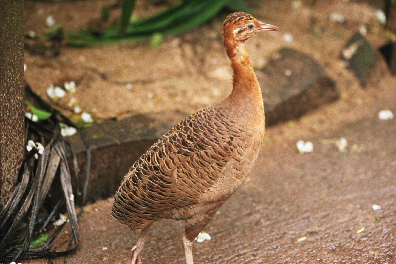 Red-winged Tinamou at Parque das Aves, Brazil.